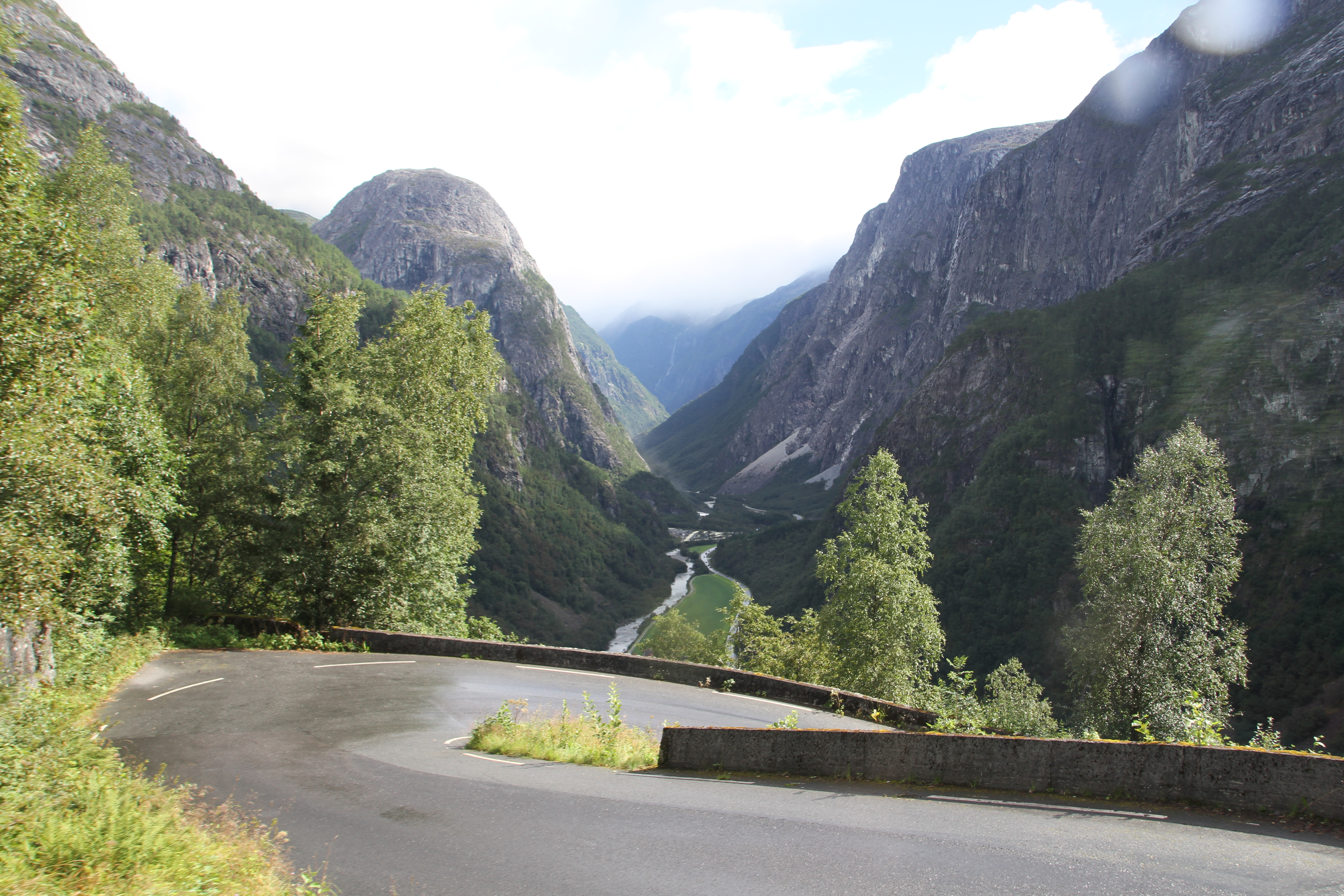 From the Stalheimskleiva 19th Century winding road up the Stalheim hills of Voss, Norway.